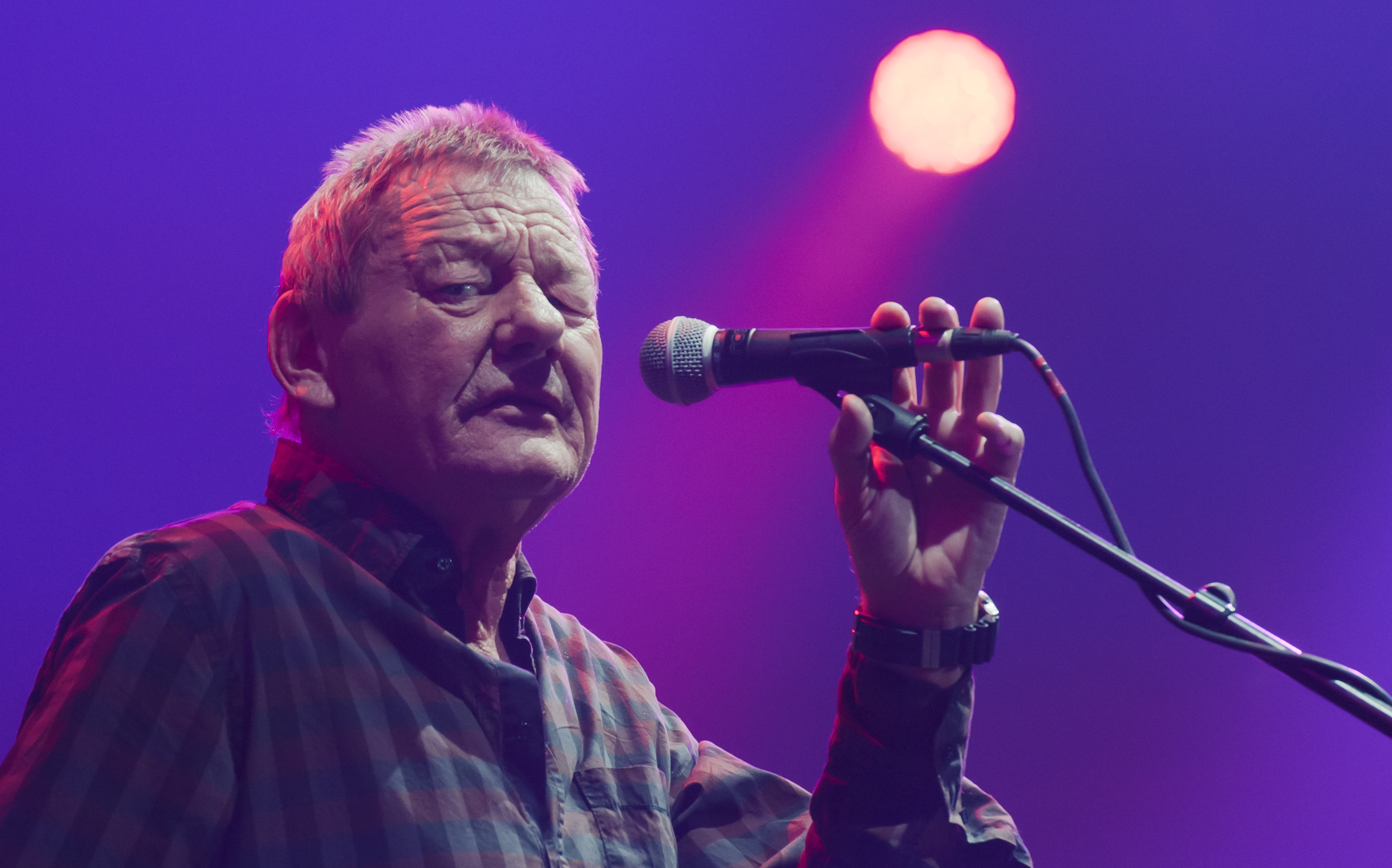 Wolfgang Ambros